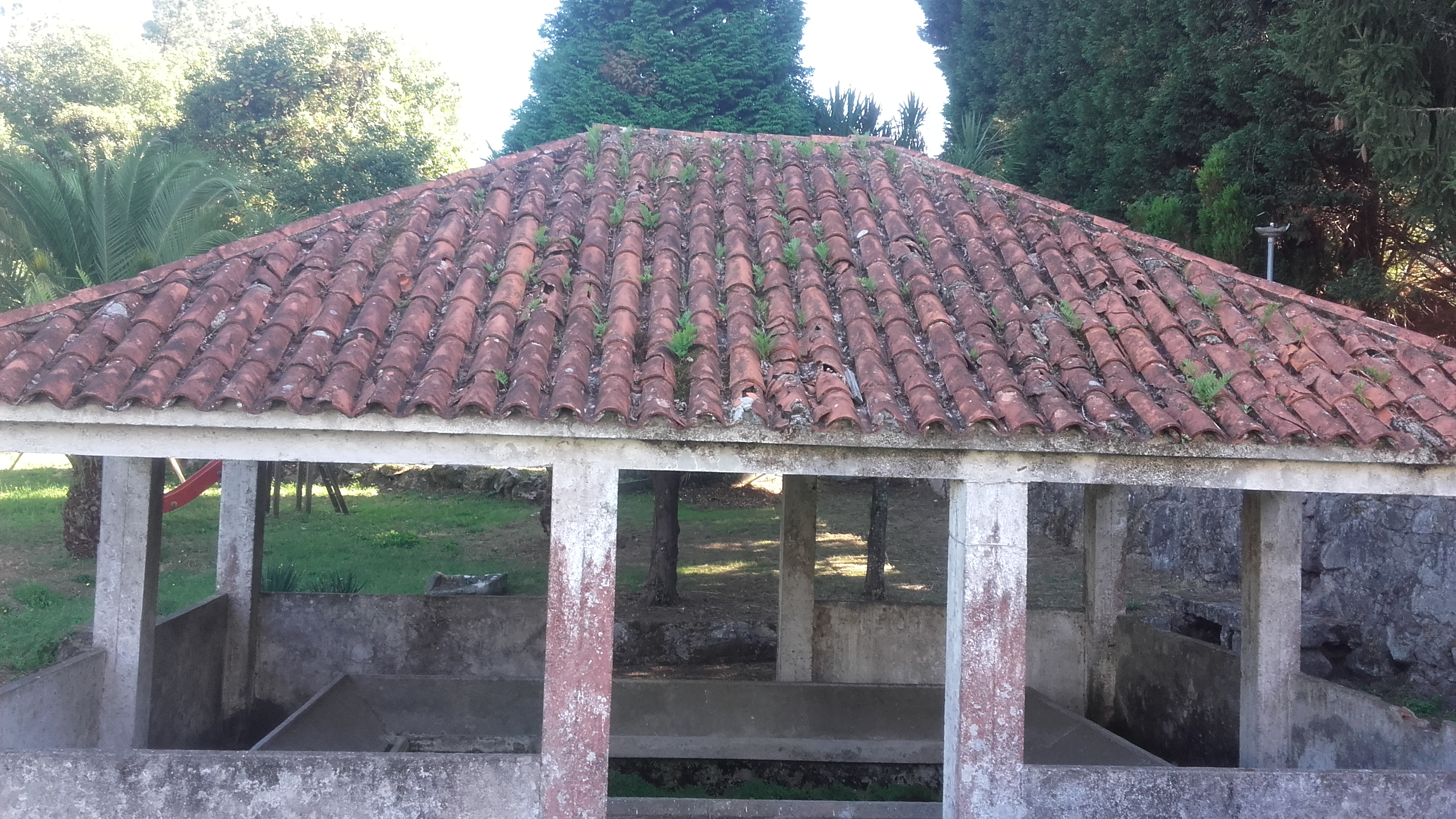 Patrimonio de Rois